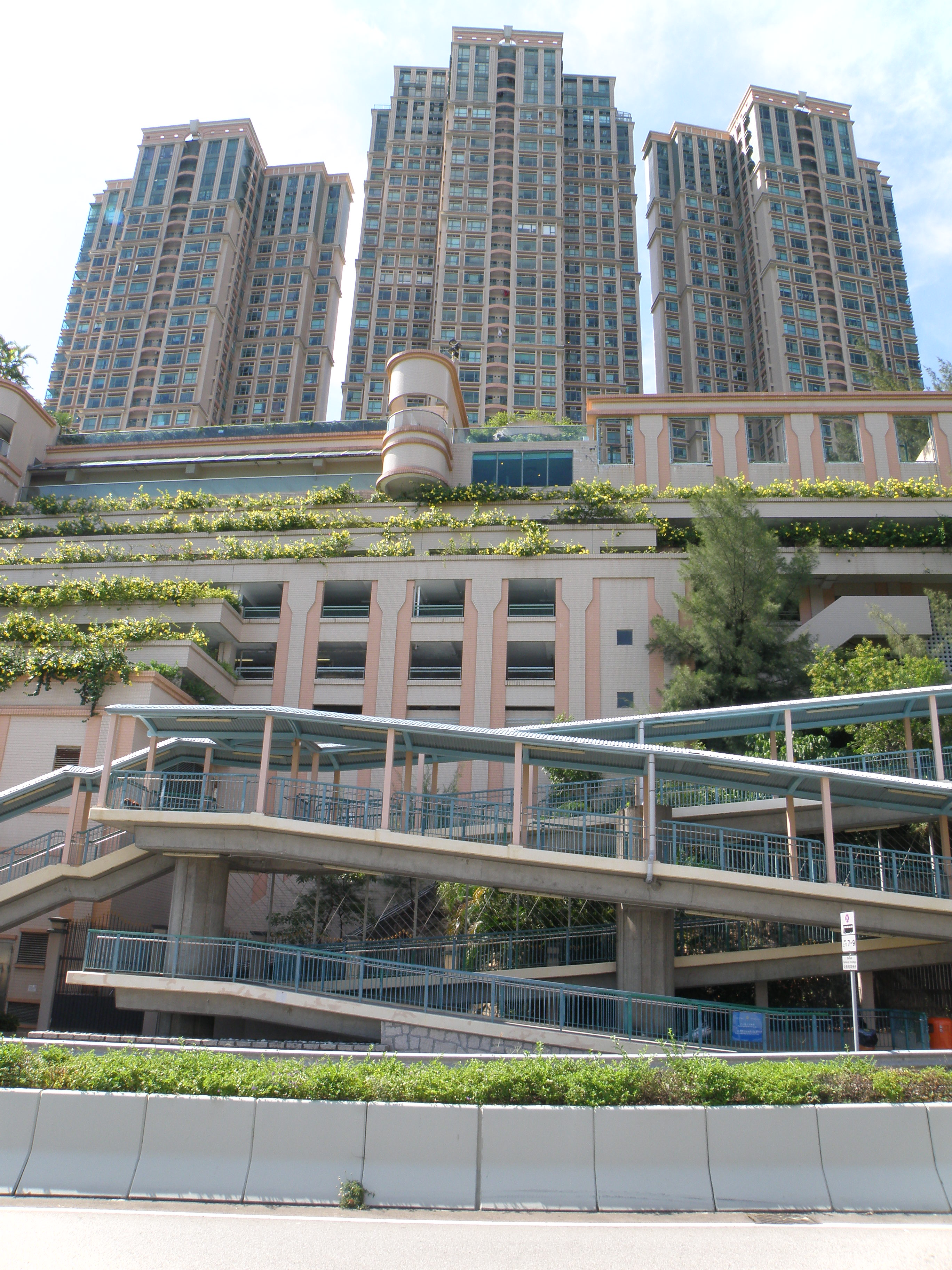 Sea Crest Villa in Tsing Lung Tau, Hong Kong.